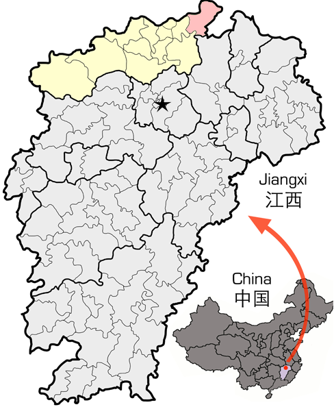 Map showing location of Pengze, Jiujiang in Jiangxi Province China